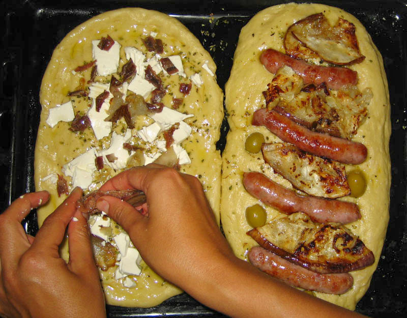 making cocas (catalan pastry).